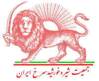 Red Lion and Sun Society of Iran